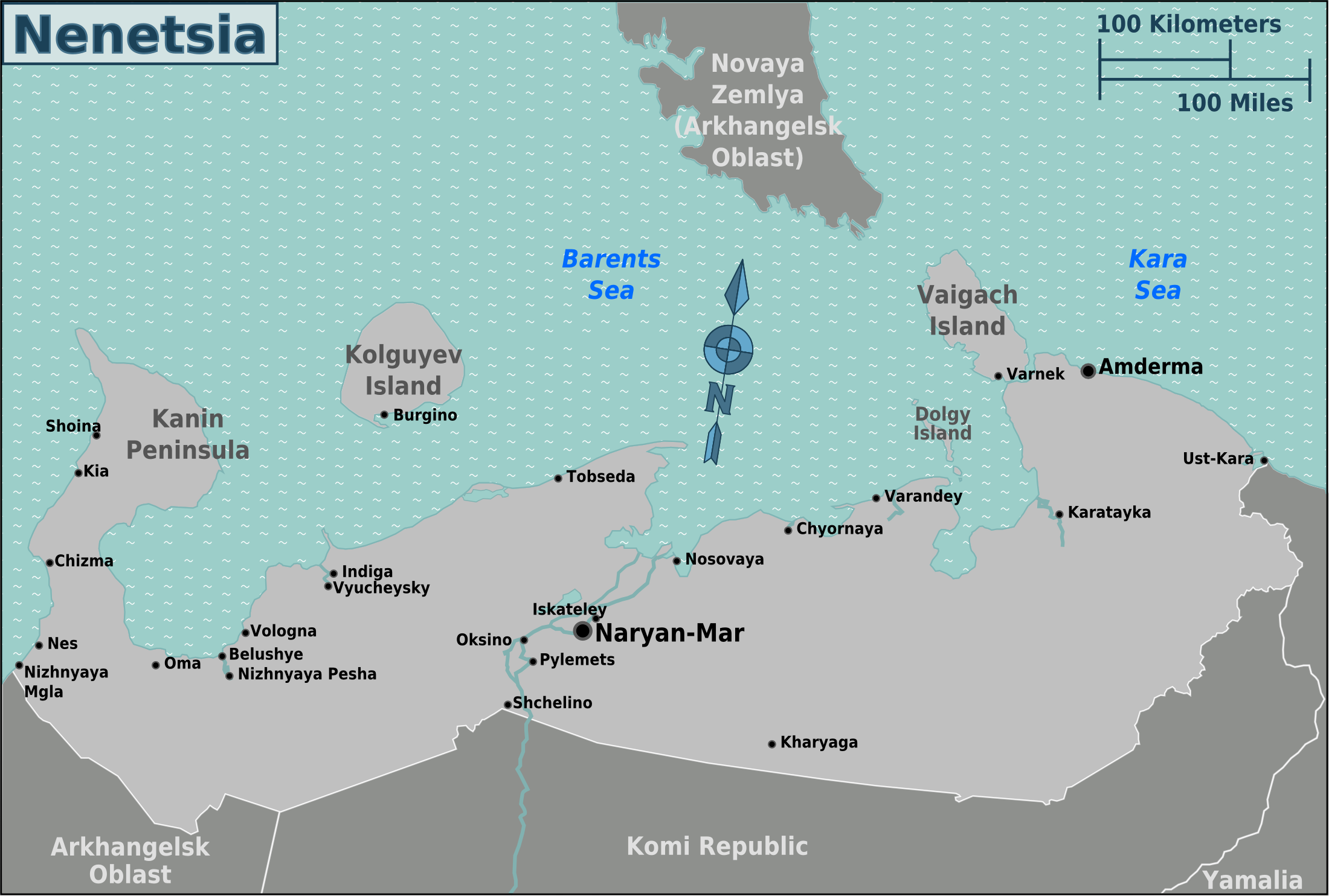 Nenetsia Region Map for use on Wikivoyage, English version